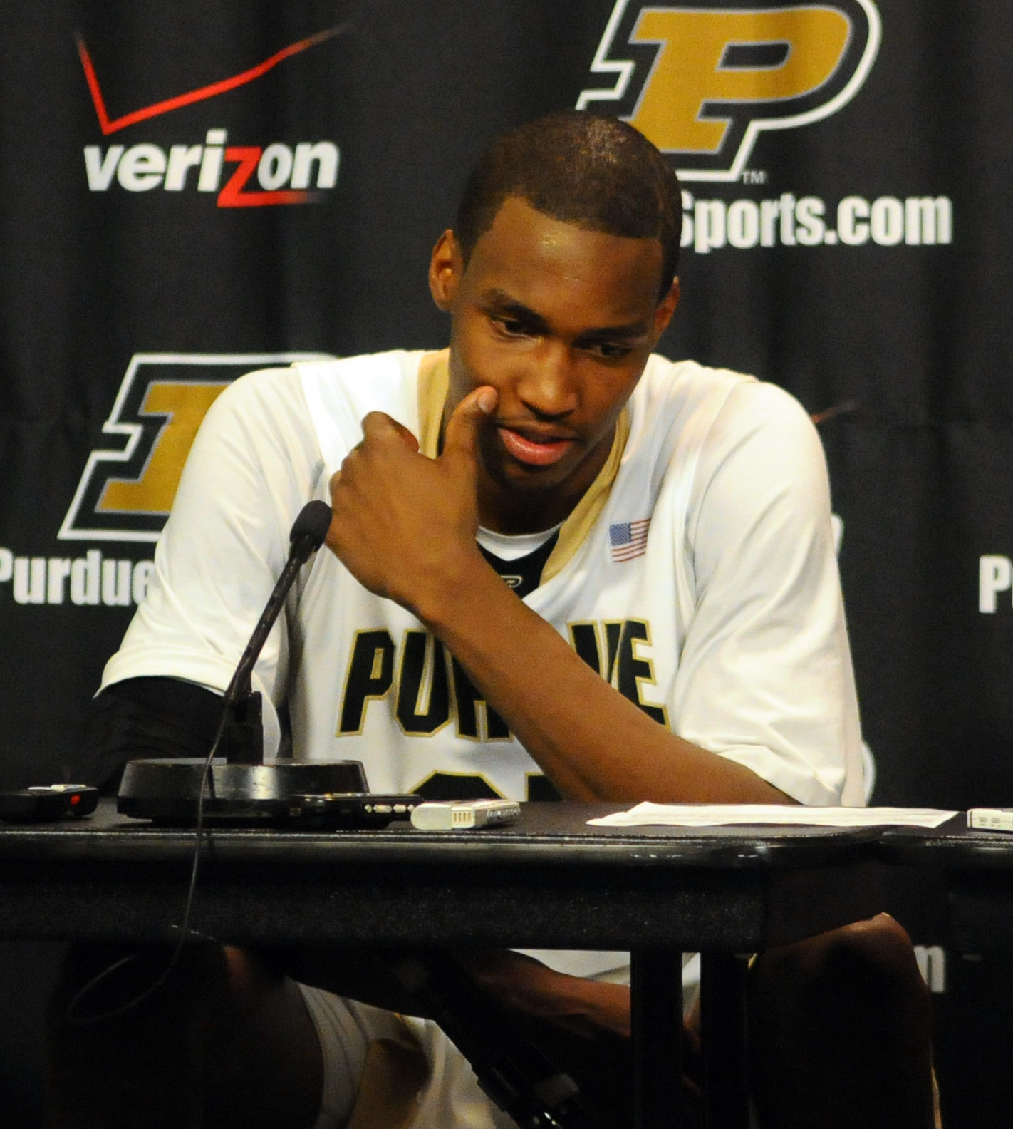 E'Twaun Moore, JuJuan Johnson and Robbie Hummel at press conference.